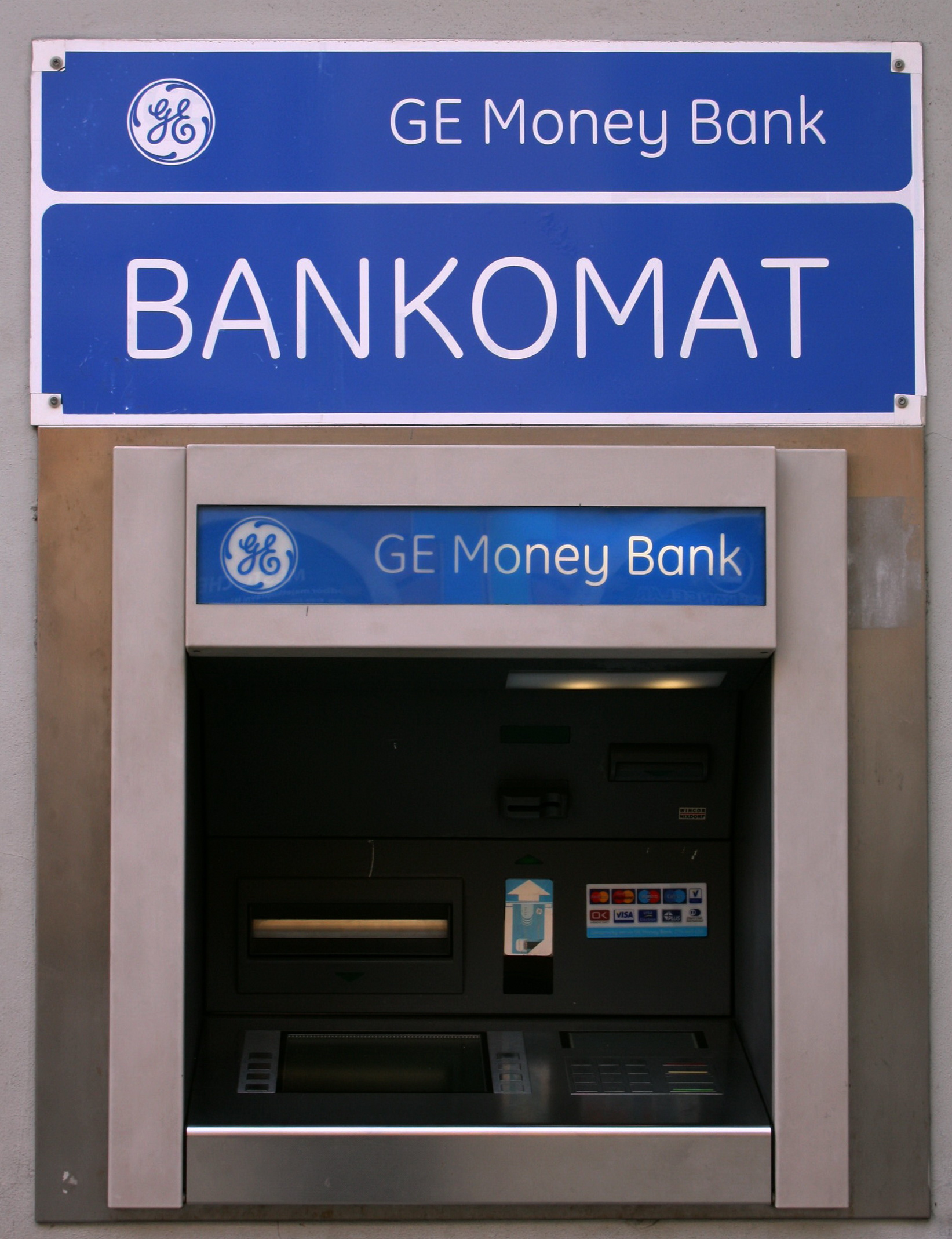 ATM in Cheb, Czech Republic.